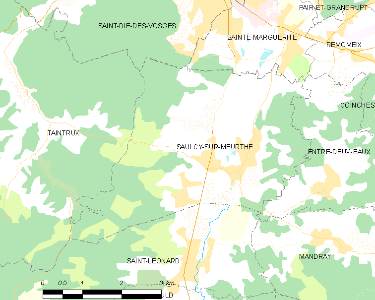 Map of French municipality Saulcy-sur-Meurthe